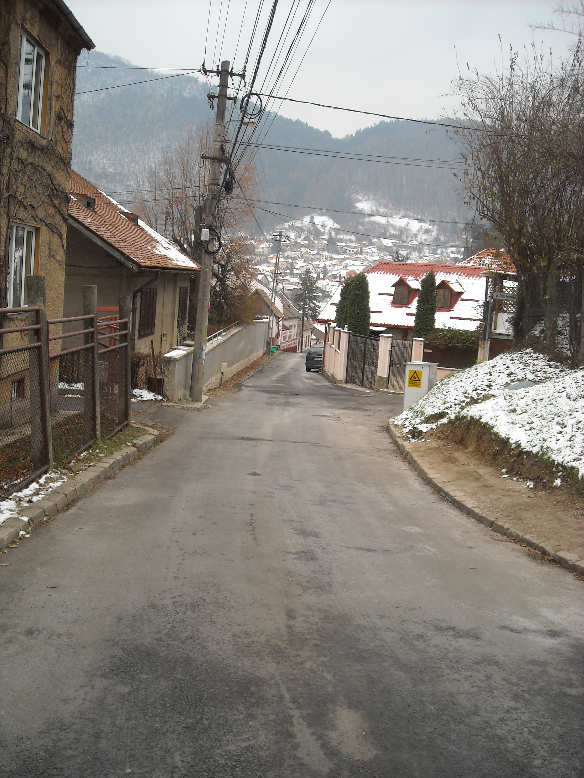 Iniște neighbourhood of Șcheii Brașovului